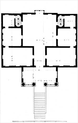 Plan of Villa Chiericati drawn by Bertotti Scamozzi in 1781 public domain by virtue of age.